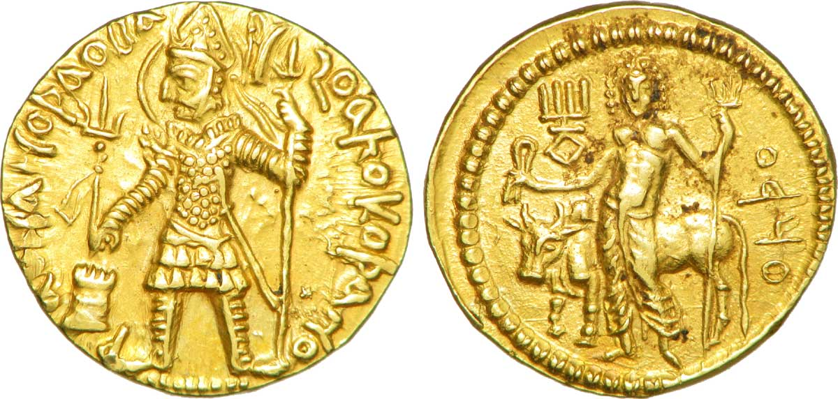 Statère d'electrum du royaume de Kouchan à l'effigie de Vasou Deva I. Shiva au verso